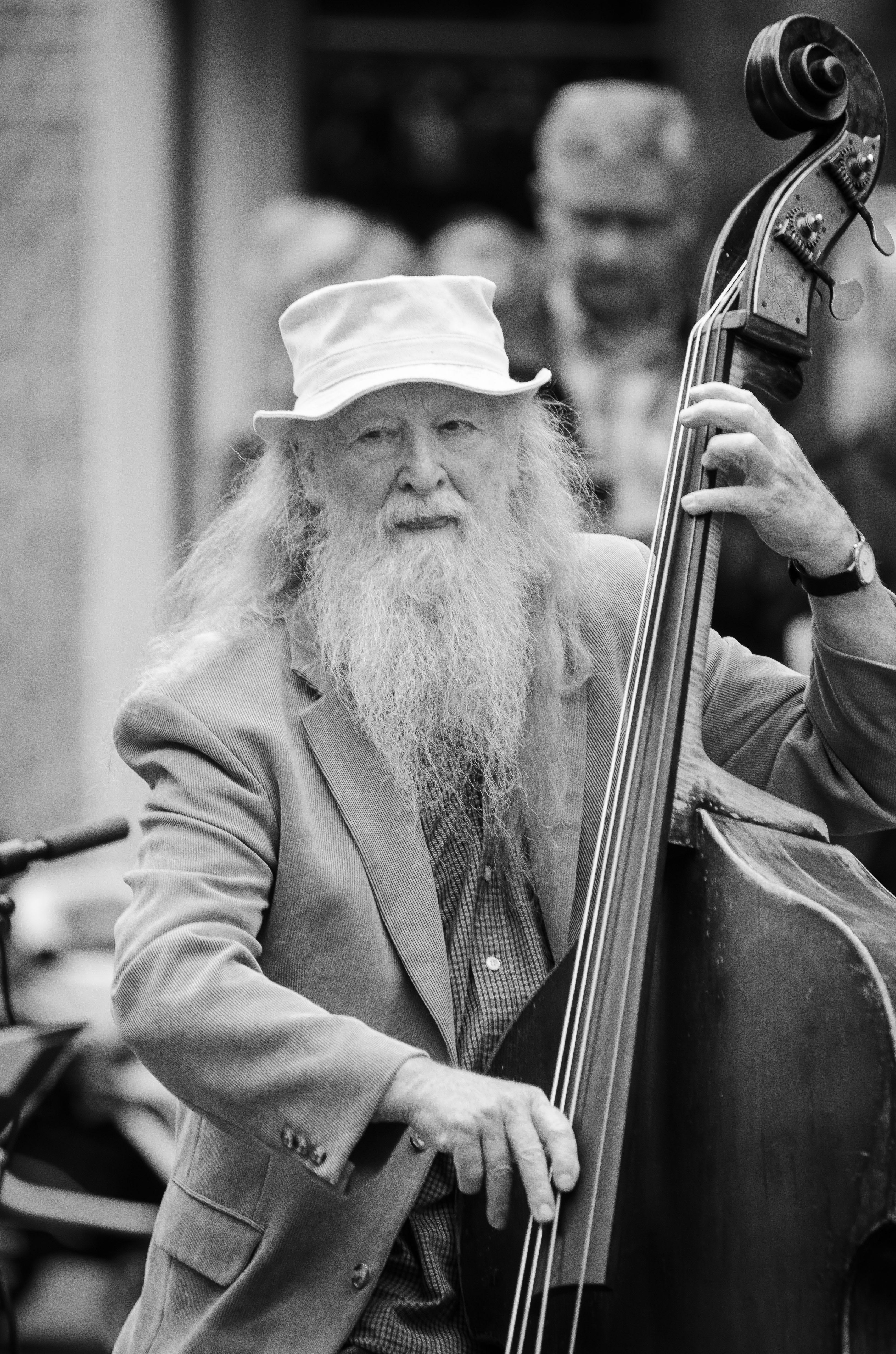 Hugo Rasmussen